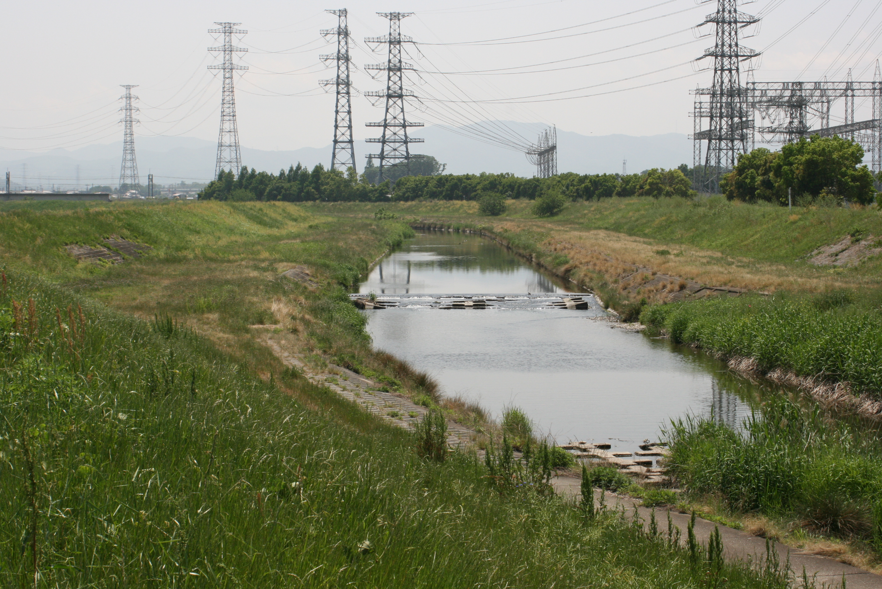 Shidogawa river in Saitama prefecture, Japan viewd from near the junction of Koyamagawa and Shidogawa